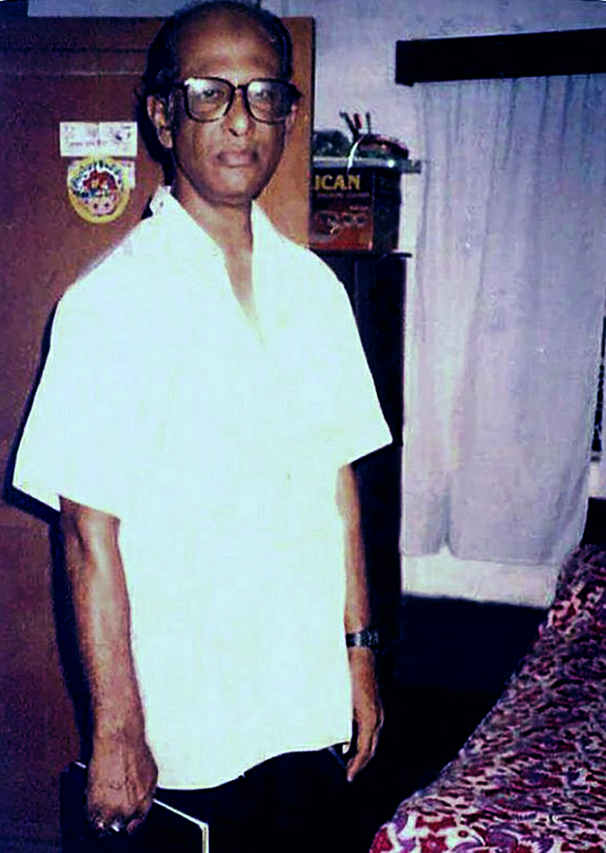 Kazi Anowar Hossain (1 January 1941 – 8 February 2007) Kazi Anwar Hossain was a Bangladeshi painter who was very well known for his classical portrayal of rural Bengal.In recognition of his contribution to the art world, the government of Bangladesh awarded him Ekushey Padak posthumously in 2016.